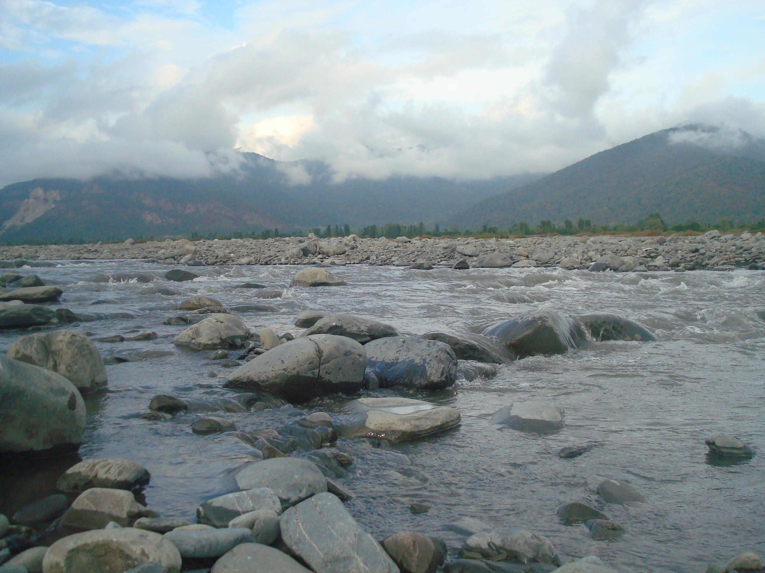 The nature of the Azerbaijan.